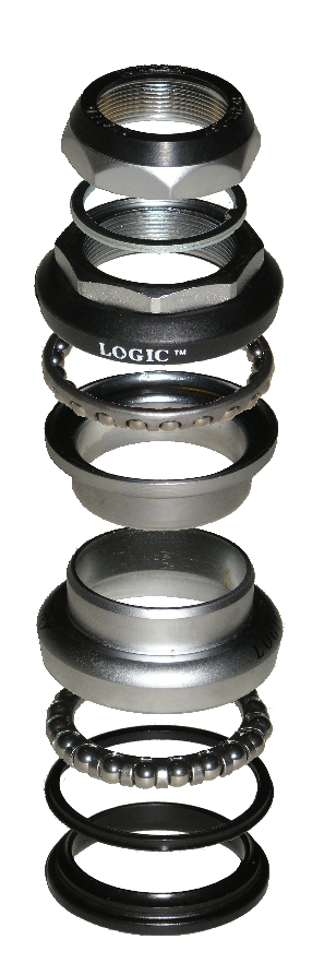 An exploded view of a 1 1/8" threaded bicycle headset